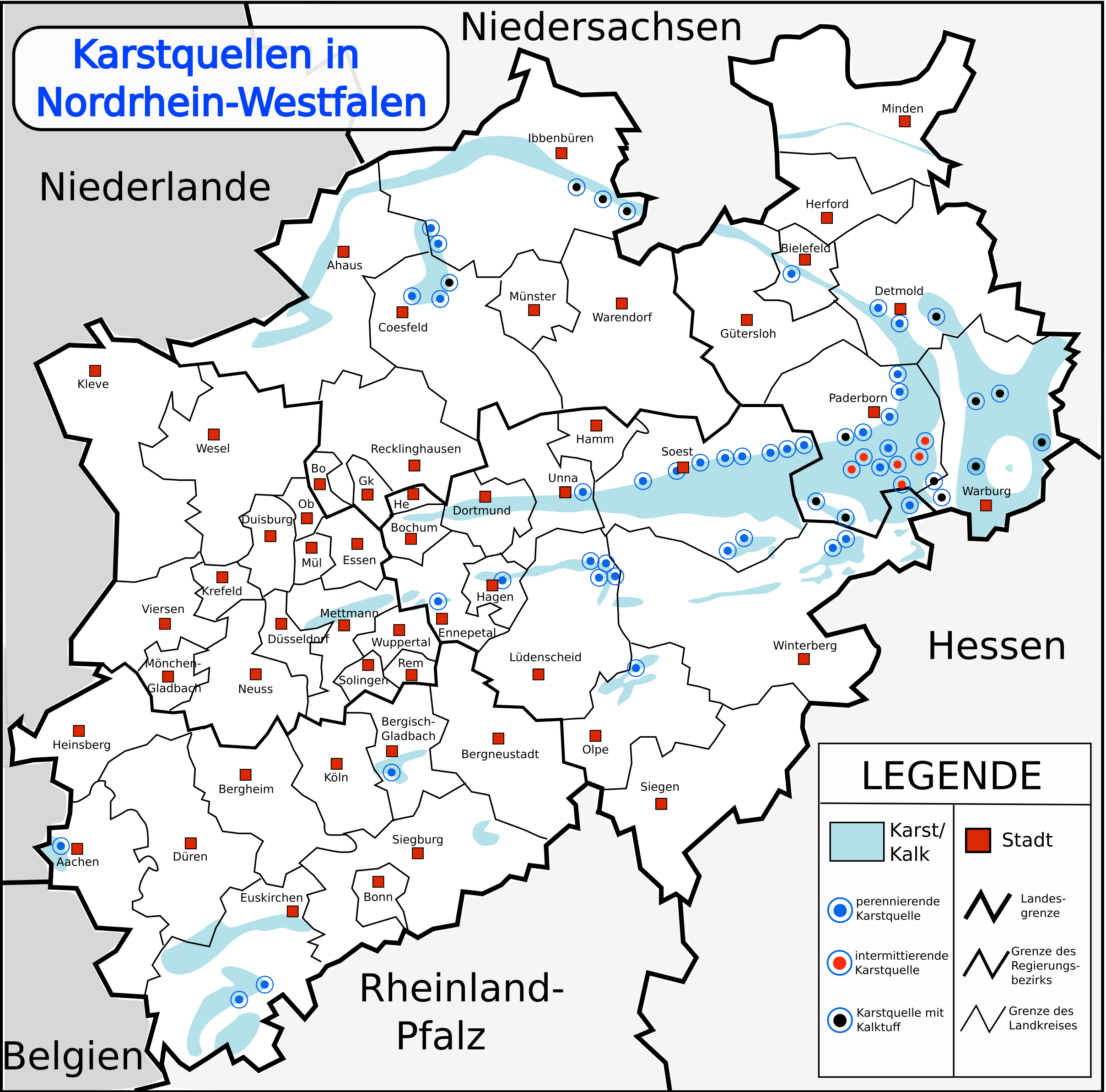 Approximate map of karst springs in North Rhine-Westphalia (Germany).